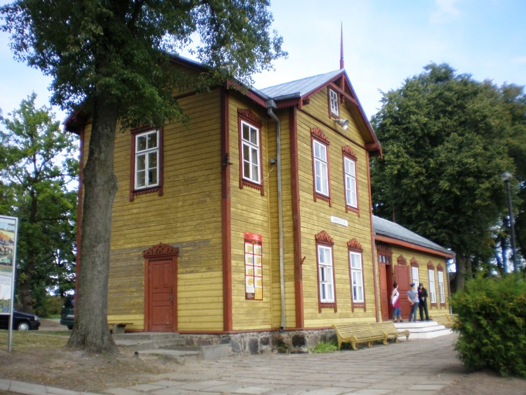 The train station of Anykščiai